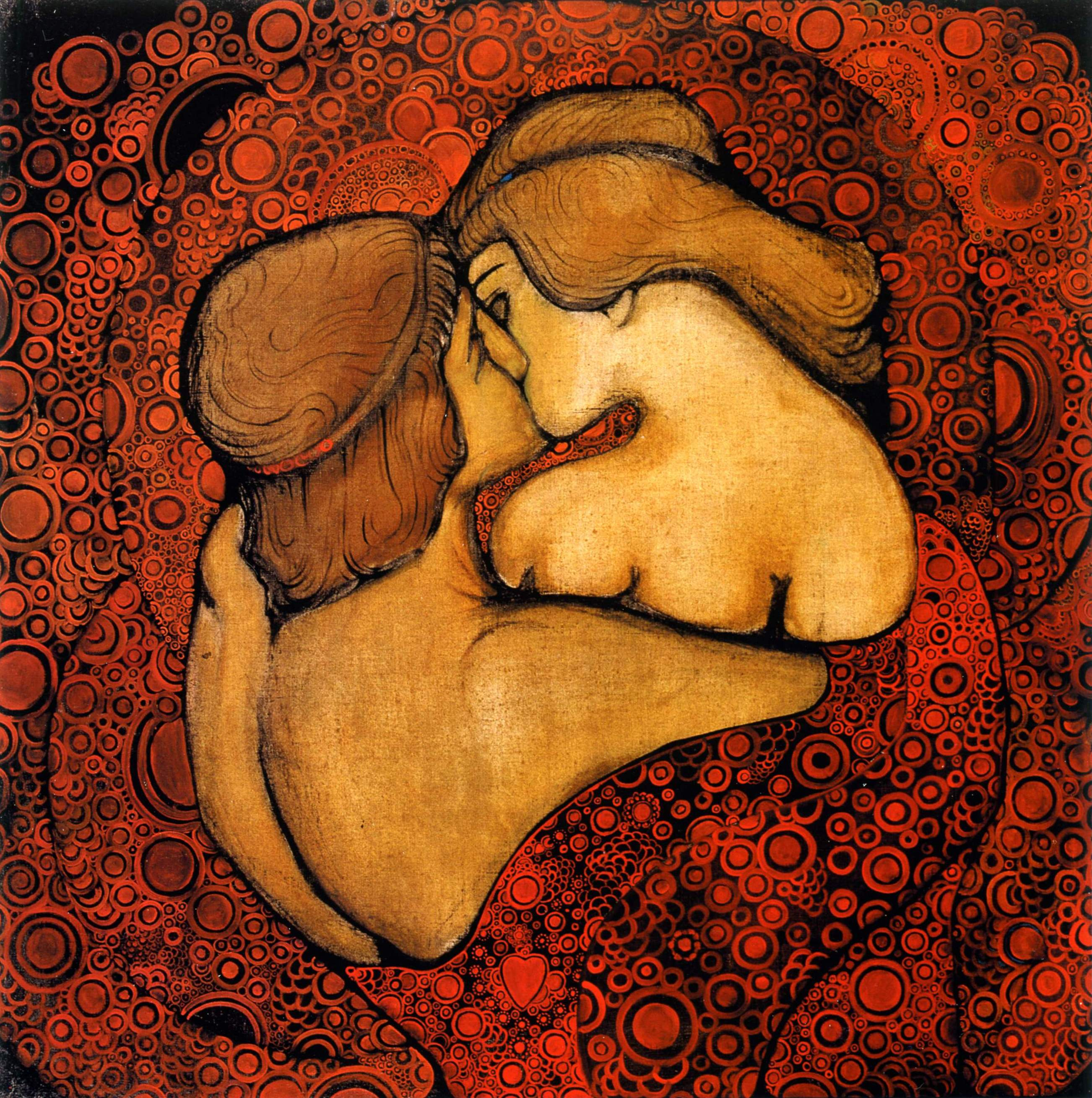 Vsevolod Maximovich "The Kiss" 1913